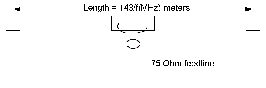 Graphic of a half-wave dipole antenna